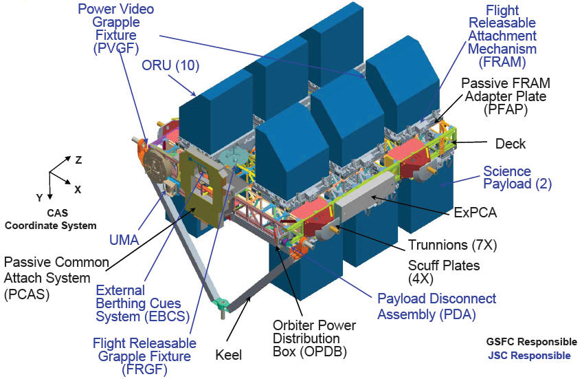 ELC Structure and design